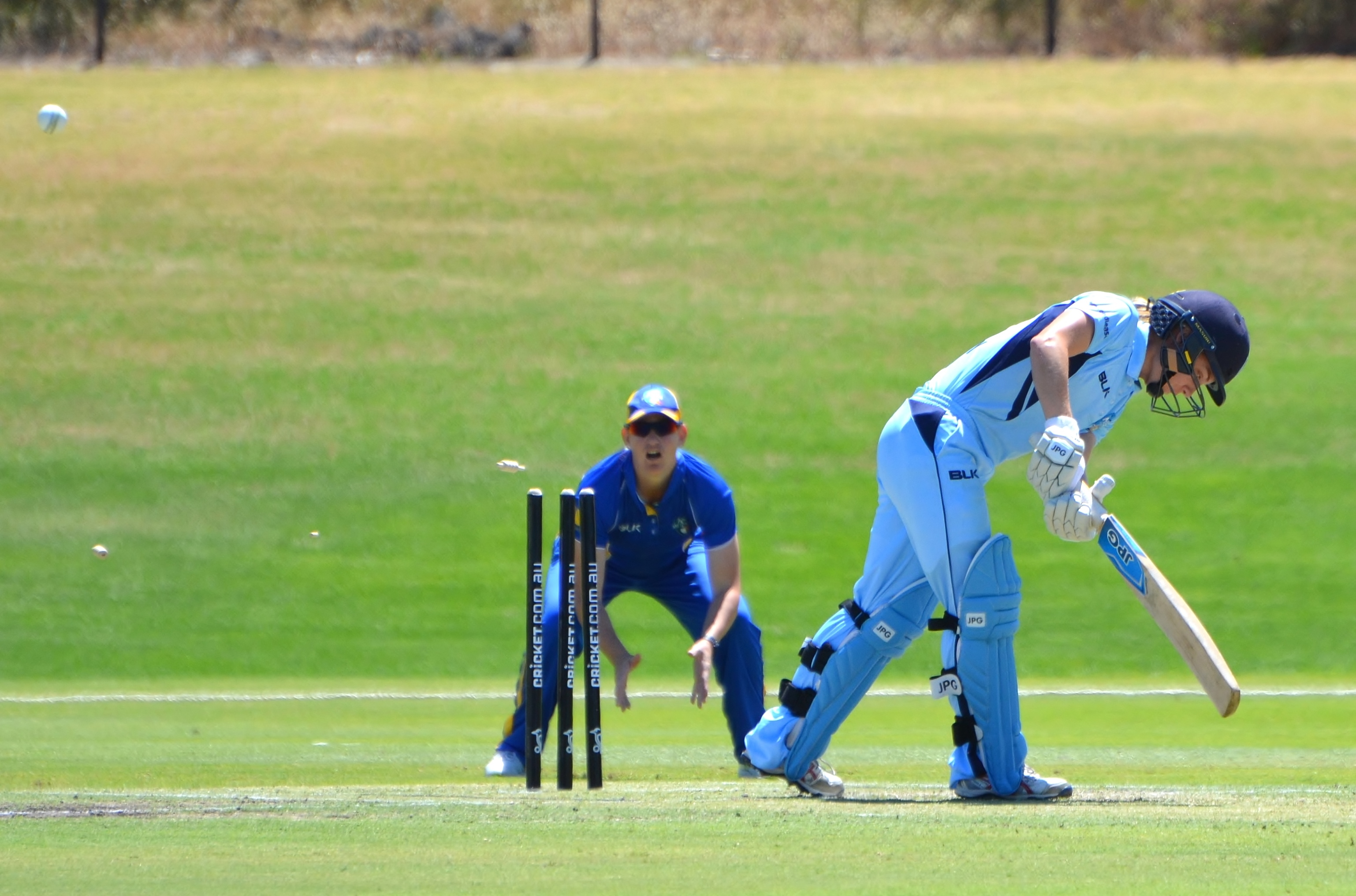 It's good to be an all-rounder. In this image, New South Wales Breakers all-rounder Nicola Carey is bowled for a golden duck by ACT Meteors all-rounder Marizanne Kapp, during a WNCL top of the table clash at Murdoch University Sports Oval in Perth. However, Carey later redeemed herself by taking 3-28 during the Meteors' innings. Partly for that reason, the Breakers comfortably won the match.